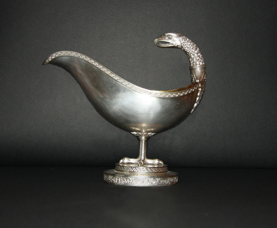 Srebro Karola Jerzego Lilpopa